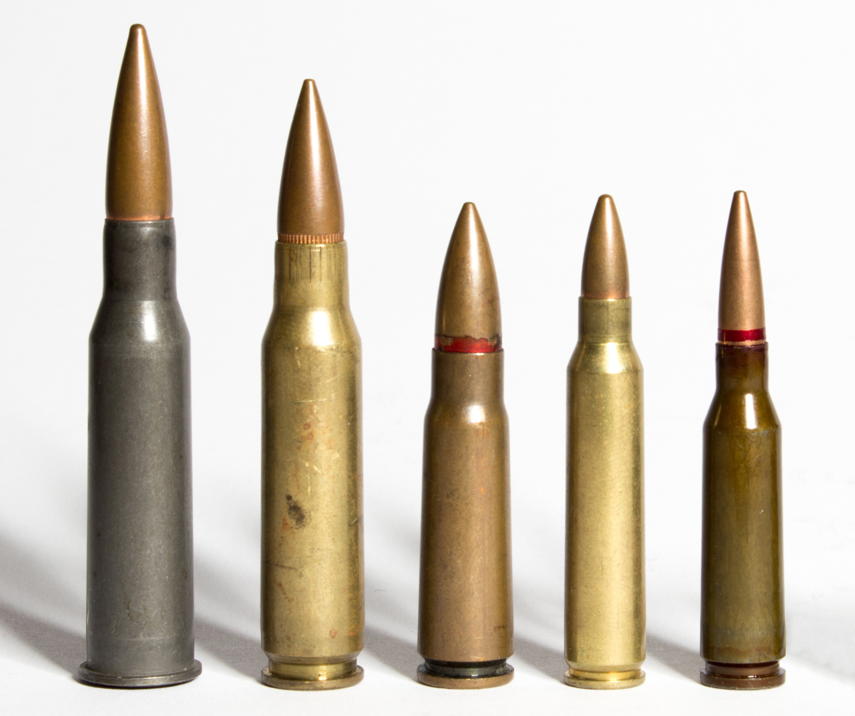 Home studio shot of the most common pistol and rifle cartridges. From left to right: 7.62×54mmR, 7.62×51mm NATO, 7.62×39mm, 5.56×45mm NATO and 5.45×39mm.